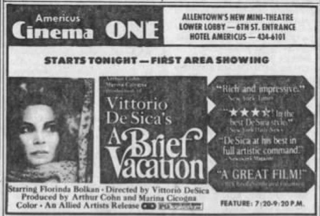 Americus Cinema One, American advertisement for the Italian film Una breve vacanza (1973) under its English title A Brief Vacation - 27 Aug. 1975 Morning Call, Allentown, PA